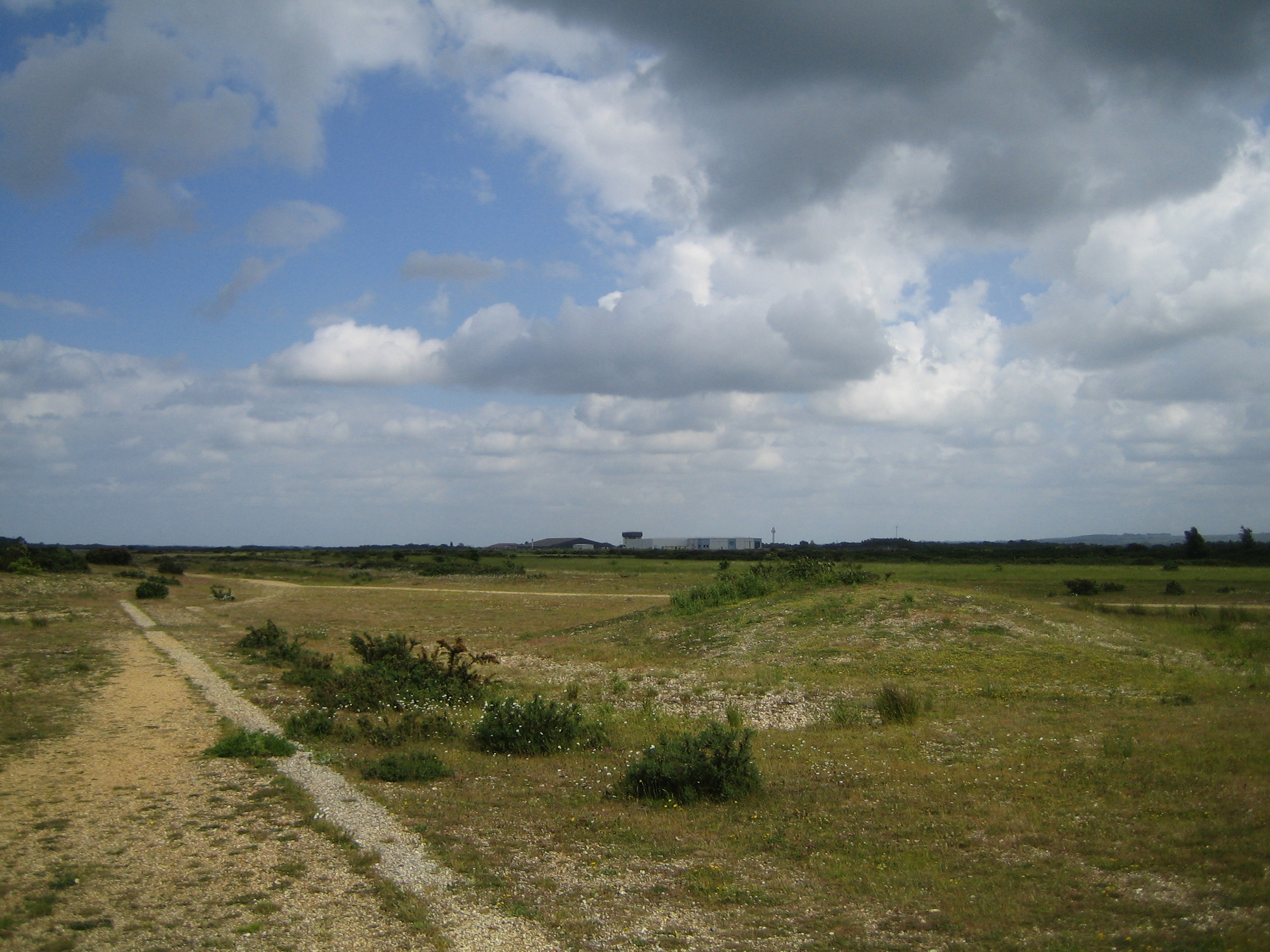 Greenham Common; taken by Joolz in June 2005.